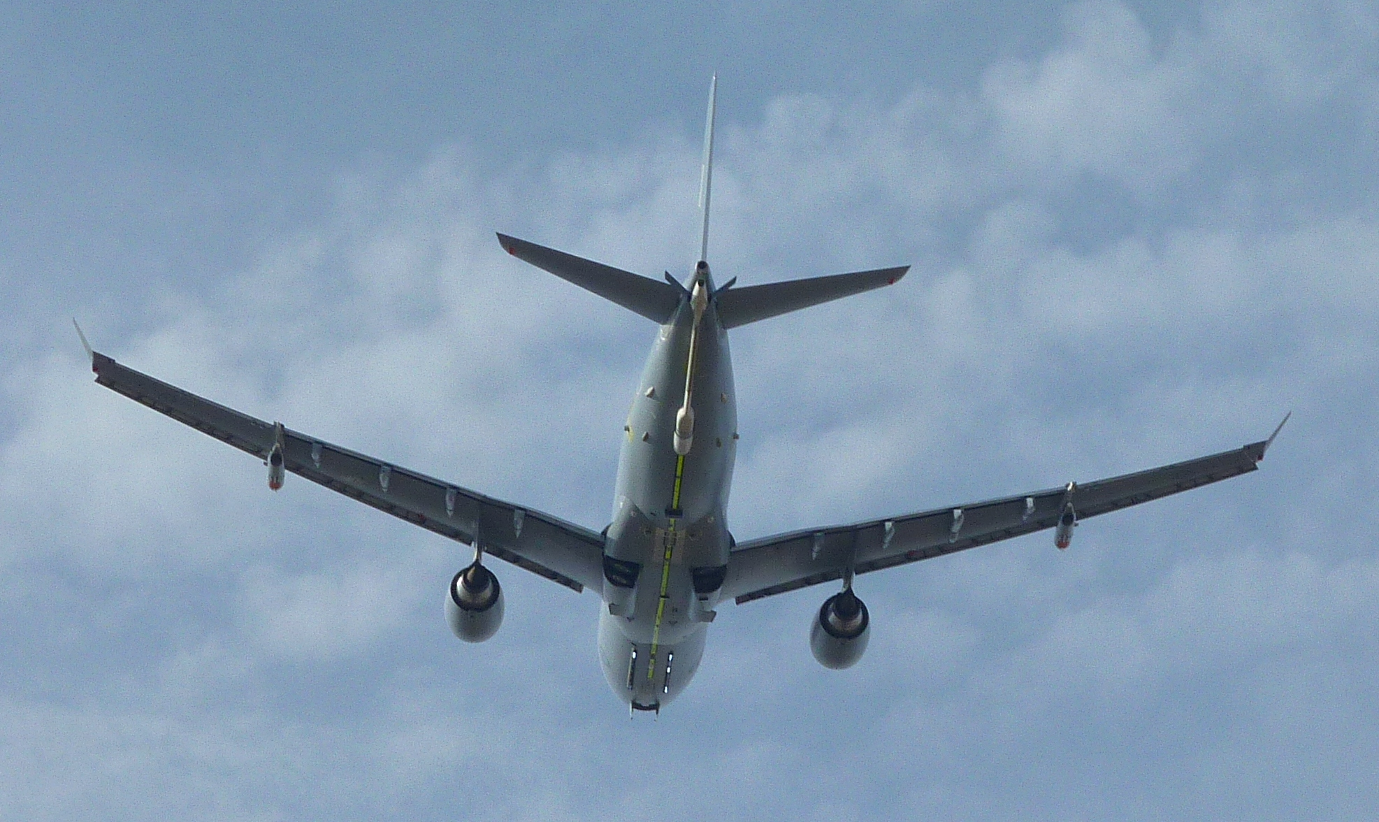 Royal Australian Air Force Airbus A-330-200 MRTT taking off from the Getafe Air Base (Spain) for a test flight.